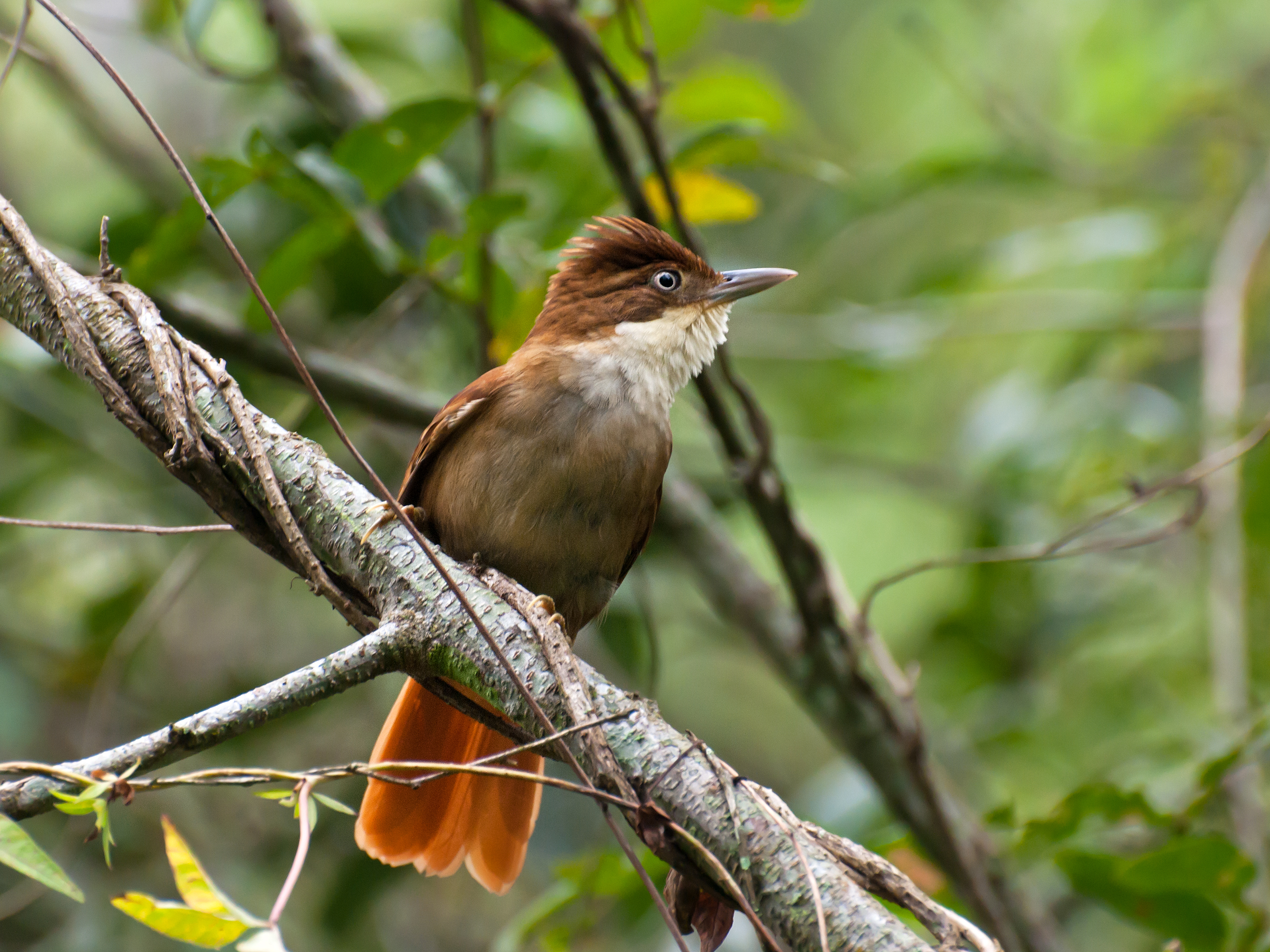 A White-eyed Foliage-gleaner in Piraju, São Paulo, Brazil.